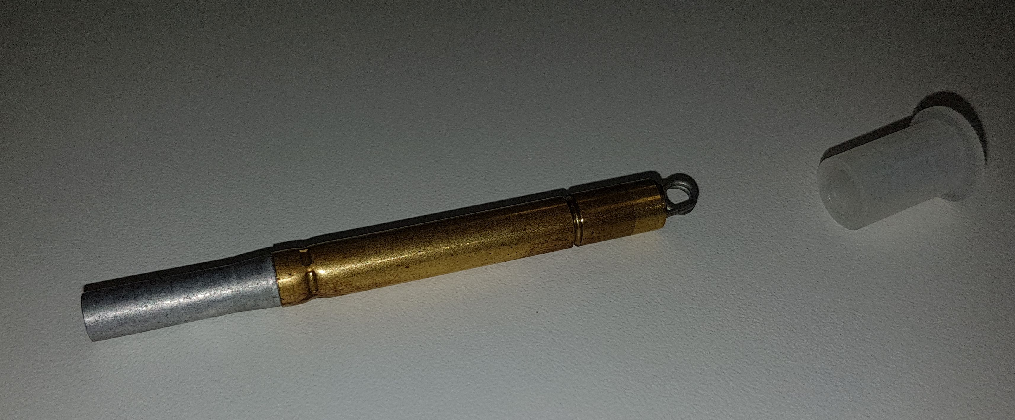 Firing pin igniter (Safety Fuse Igniter) for pyrotechnics and avalanche blasting.